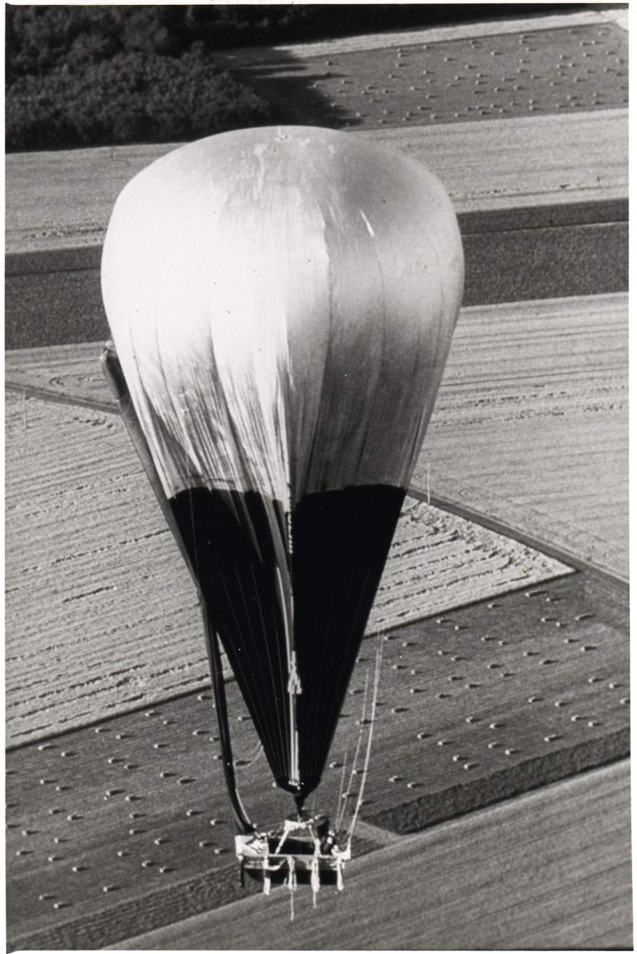 In 1978, Ben Abruzzo, Maxie Anderson, and Larry Newman took off from Presque Isle, Maine in the gas balloon Double Eagle II and successfully crossed the Atlantic. The flight took 137 hours, 6 minutes and covered 5,021 kilometers (3,120 miles) landing in a wheat field near Miserey, France. This was the first successful transatlantic crossing by a manned balloon. After Charles Lindbergh’s famous 1927 flight across the Atlantic, ballooning across the ocean remained one of the great, unconquered aviation challenges. Abruzzo and Anderson failed at their first attempt in 1977. Less than a year later with a long-time friend, Newman, the group succeeded. Extreme temperature variations during the flight caused ice to build up outside the balloon each night, and heat from the sun caused helium to expand during the day. This led to what the pilots called the “Big Drop.” On Aug 6, 1978, Double Eagle II descending to 1,219 meters (4,000 feet) due to atmospheric conditions and then rose to 7,315 meters (24,000) feet the same afternoon after being heated by the sun.